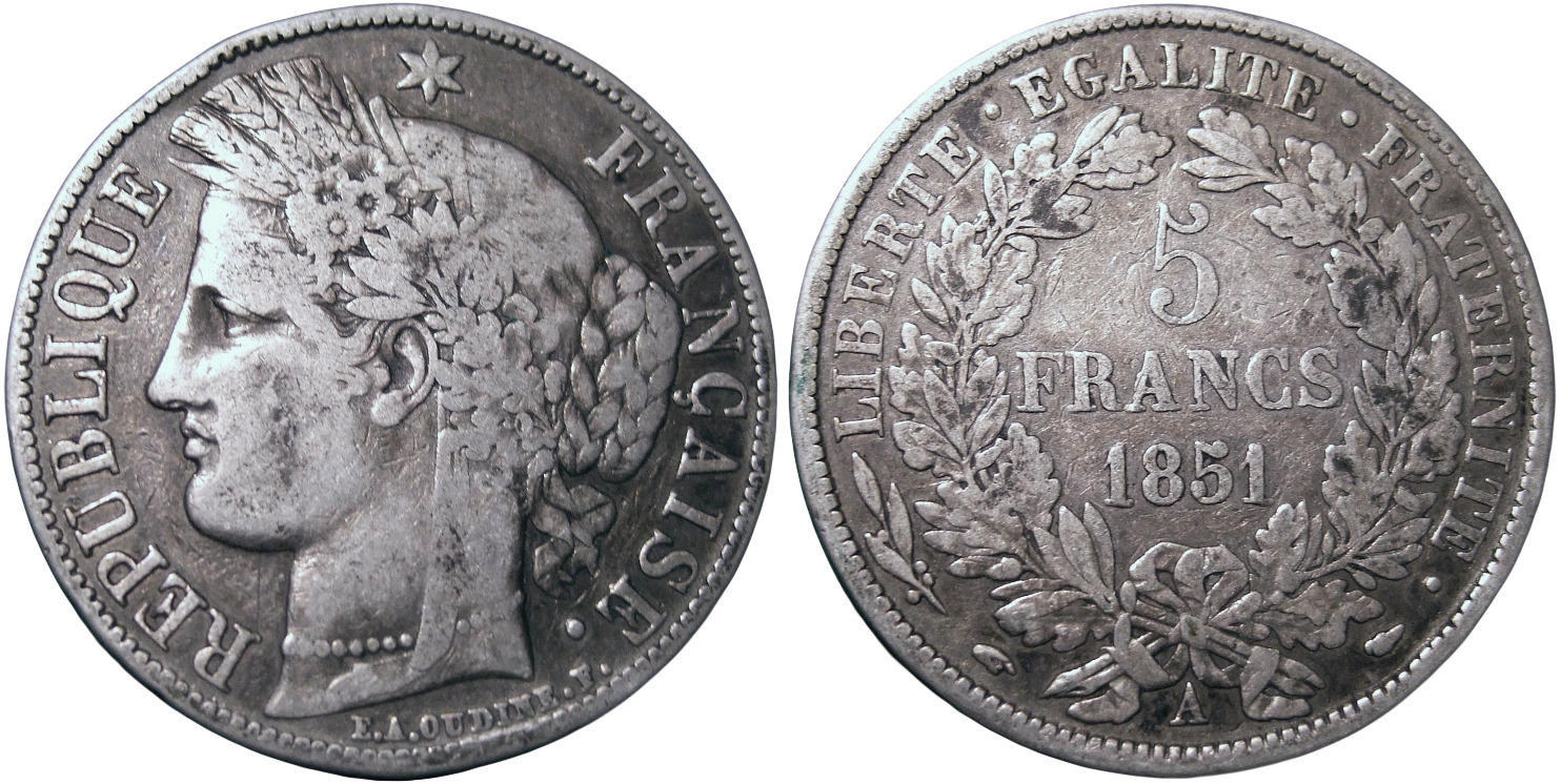 Coin 5 francs, 1851, type "Ceres" - Second Republic. Silver.